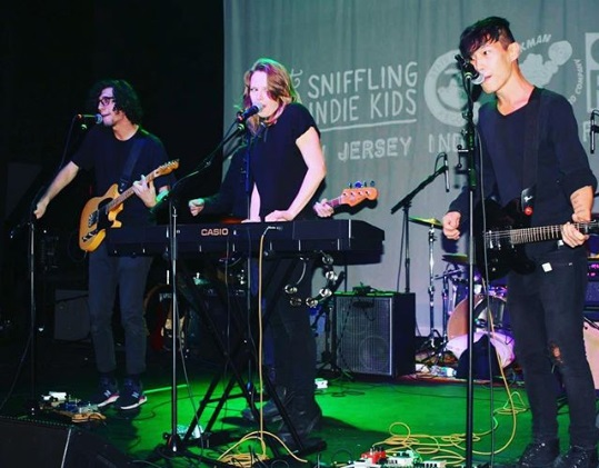 Shitheads Rainbow at the North Jersey Indie Rock Festival 2018.